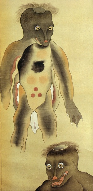 Suiko (a boss of a kappa) which was caught in Hida, Bungo Province in the Kan'ei era (寛永年間に豊後国肥田で捕獲された水虎).